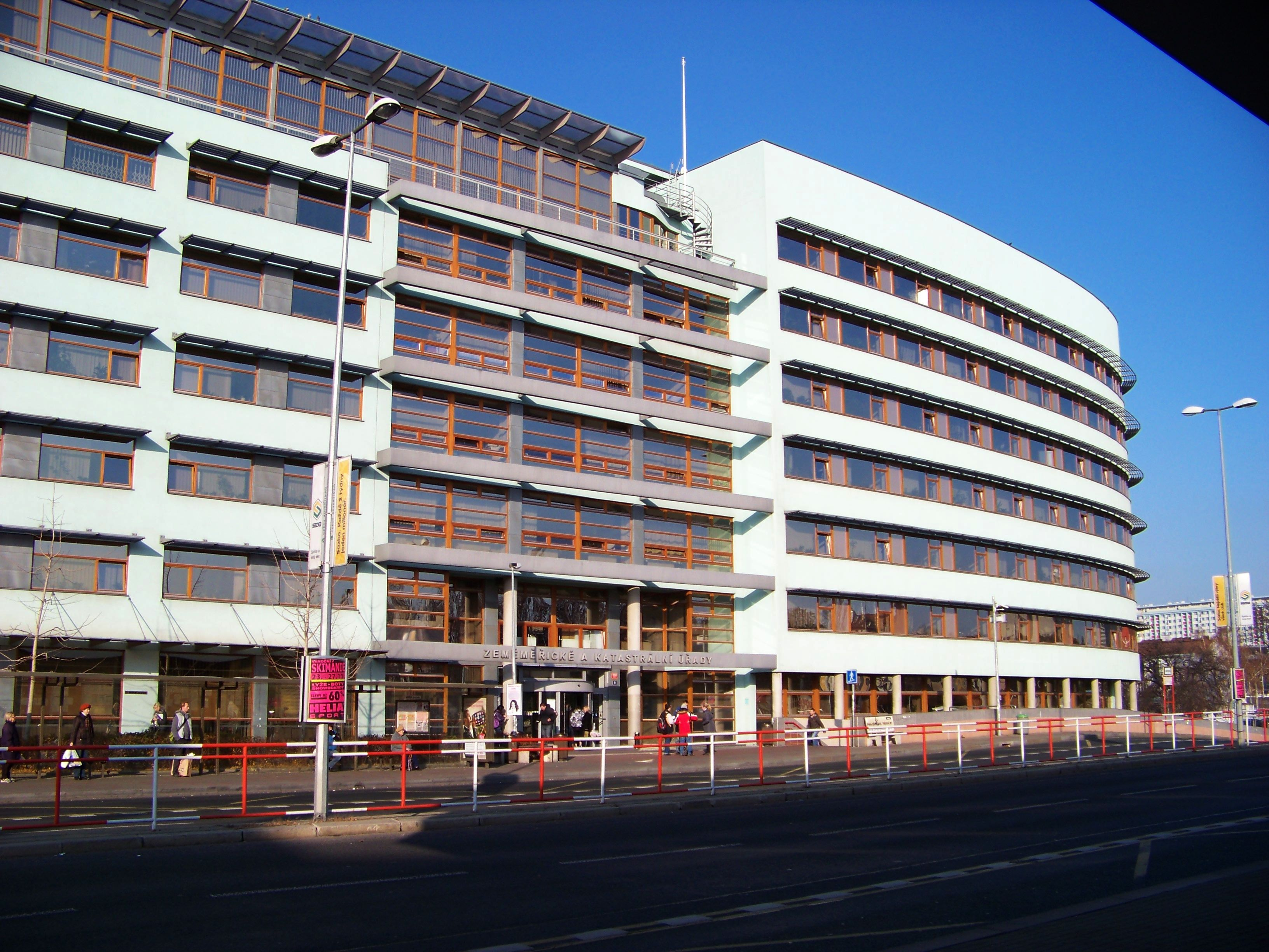 Prague-Kobylisy, the Czech Republic. Pod sídlištem street, Land Surveying and Cadastral Office and land registry offices. - OpenStreetMap(Info)